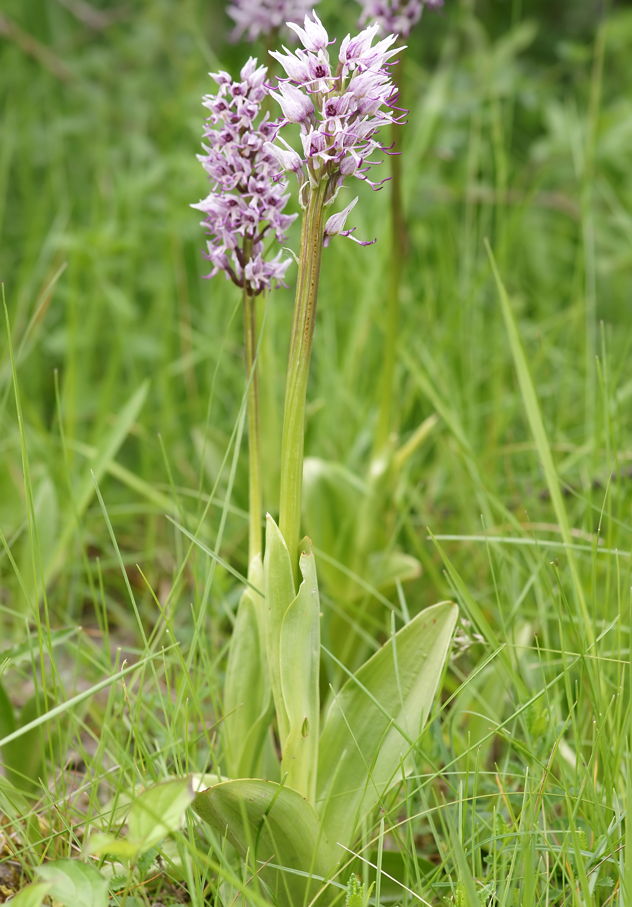 Monkey orchid near Givet, France. Approximate coordinates within a 5 km radius.